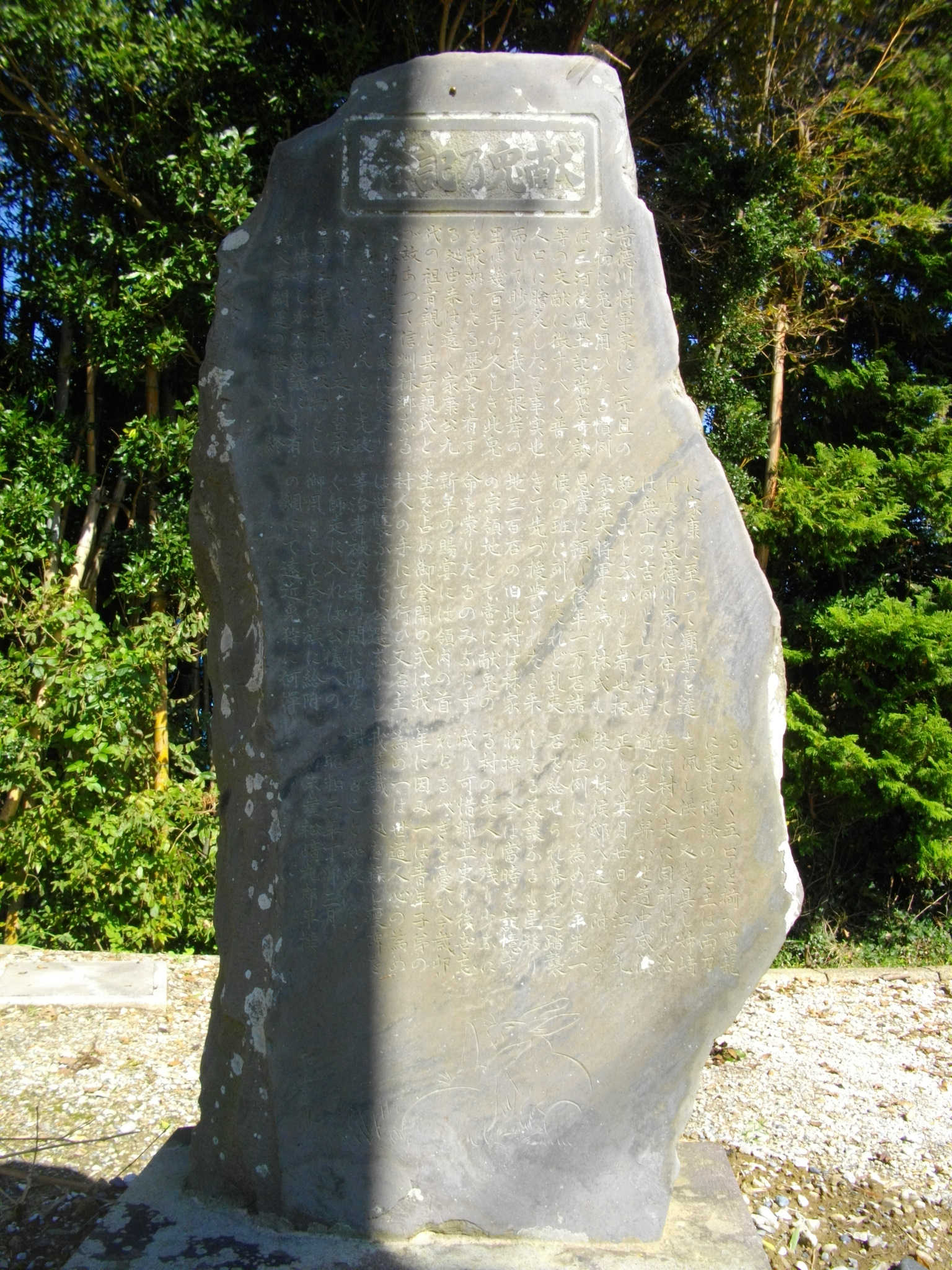 Kento Monument. "献兎(Kento)" means "Rabbits to present to the Tokugawa Shogun" in Japanese.